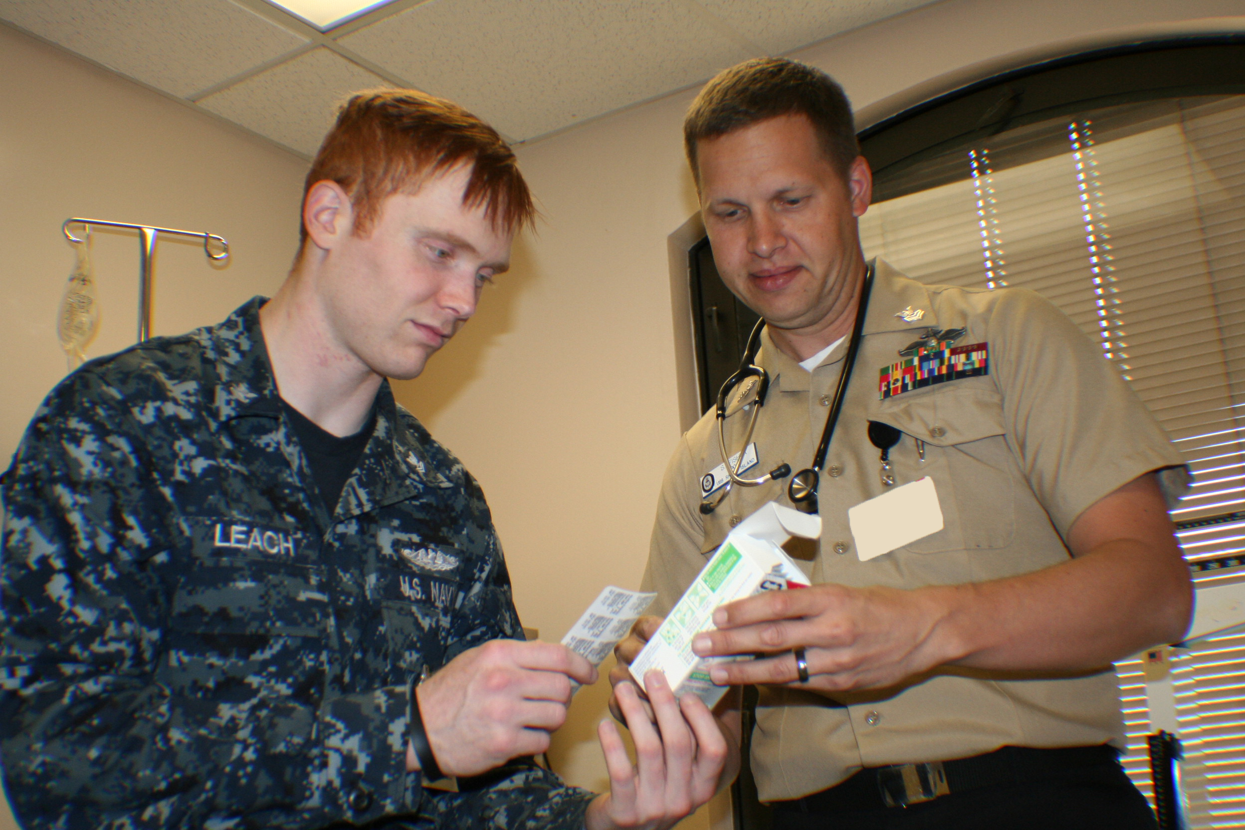 KINGS BAY, Ga. (Nov. 18, 2010) Hospital Corpsman 1st Class Shawn A. Fisher, right, independent duty corpsman assigned to the Ohio-class ballistic-missile submarine USS Rhode Island (SSBN 740) shares information regarding nicotine gum with Petty Officer 3rd Class William Leach at Naval Submarine Base Kings Bay Medical Clinic. Sailors assigned to Submarine Base Kings Bay have been participating in smoking cessation programs since June 2010 in preparation for the smoking ban on submarines, which takes effect Dec. 2010. (U.S. Navy photo by Mass Communication Specialist 1st Class Erica R. Gardner/Released)